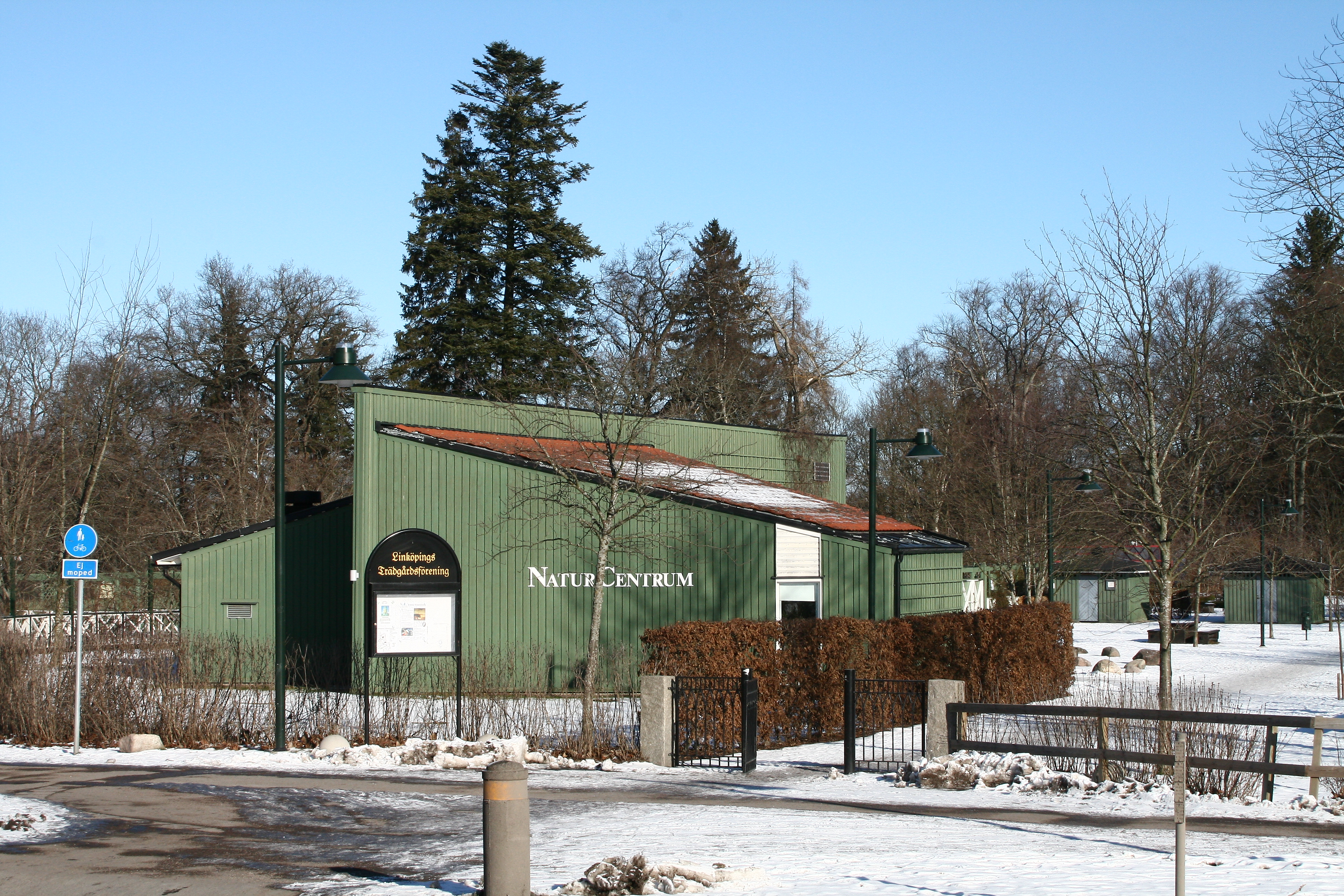 Trädgårdsföreningen, park in Linköping, Sweden, in the winter. South-western entrance with Naturcentrum.